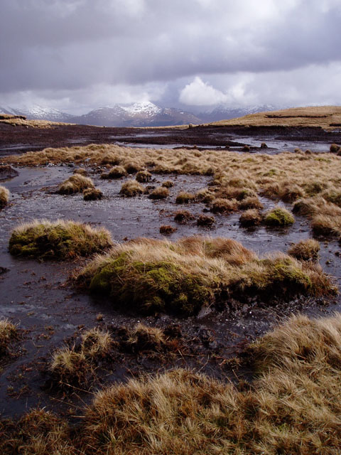 Peat bog between Beinn Odhar and Meall Buidhe A thick black bog on the flat col between the two hills, which fortunately can be easily skirted. The slopes on either side of the col are mostly grassy.